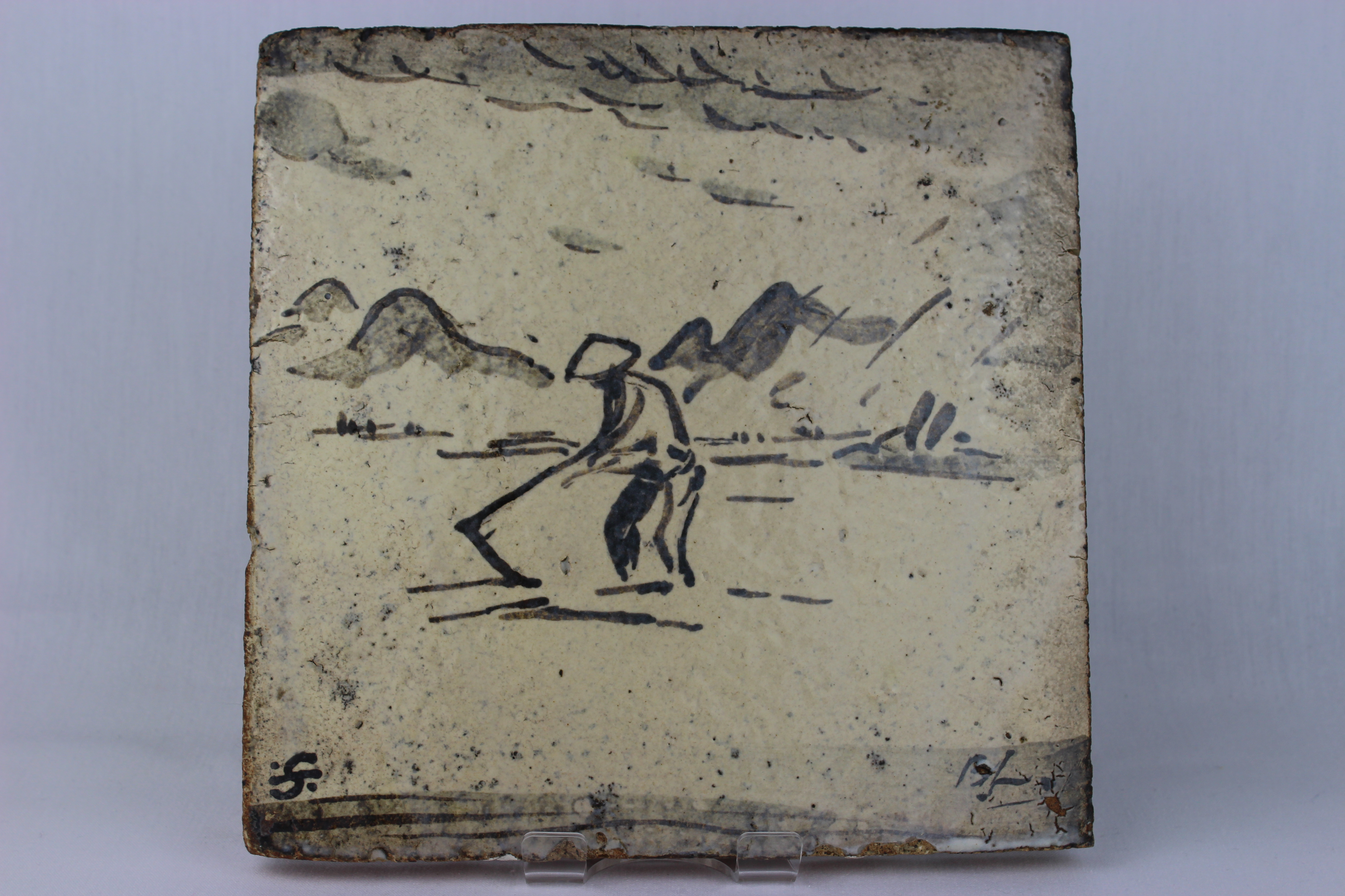 Large tile with cream glaze and painted with brown. Image of a stylised oreintal landscape with a farmer hoeing. From the W.A. Ismay Studio Ceramics Collection at York Art Gallery